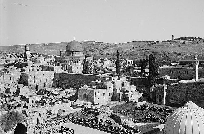 Looking down on the Moroccan Quarter (left part of picture, in front of wall), later the location of the Western Wall Plaza. The now Dome of the Rock above, Western (Wailing) Wall below.